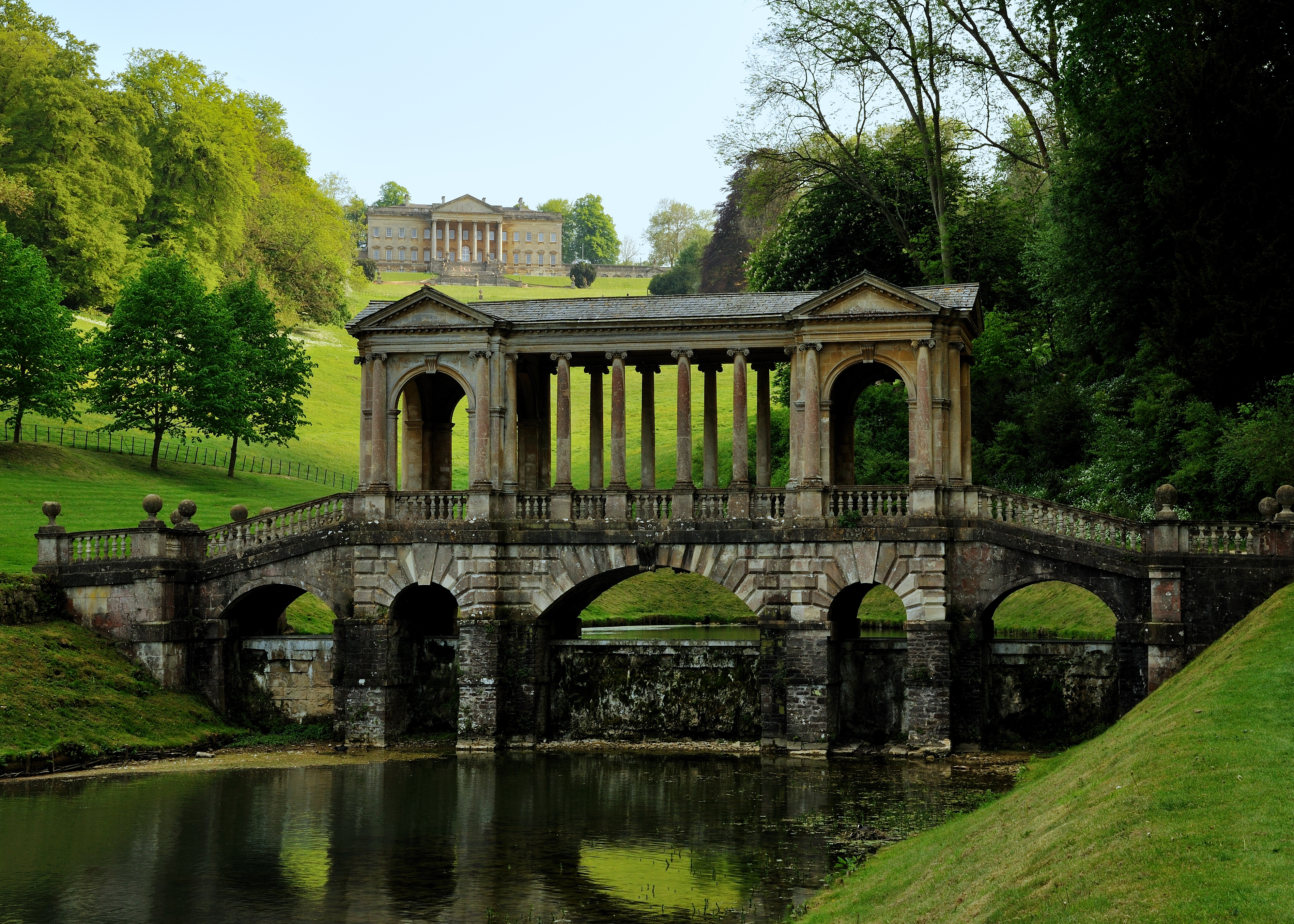 One of four remaining Palladian bridges in the World. In Prior Park, Bath.